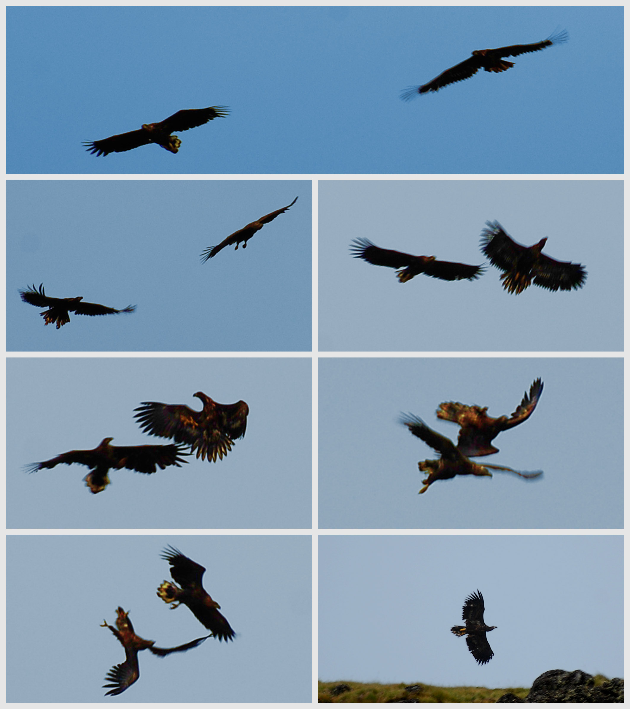 White-tailed eagle duel over Litløya in Bø, Nordland, Norway. Photos by Kjersti Corneliussen